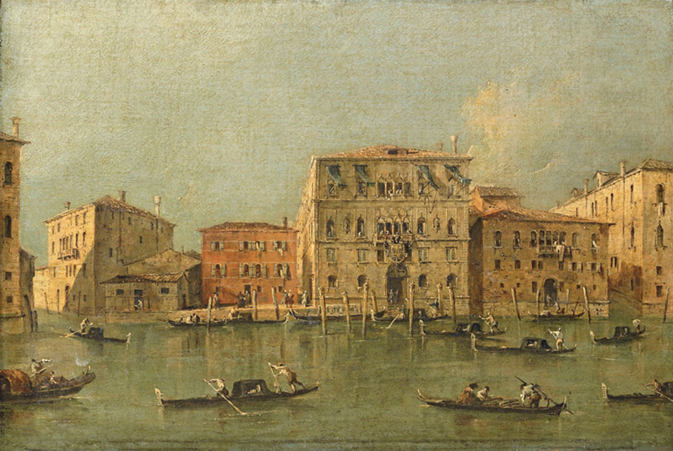 View of the Palazzo Loredan dell'Ambasciatore on the Grand Canal, Venice